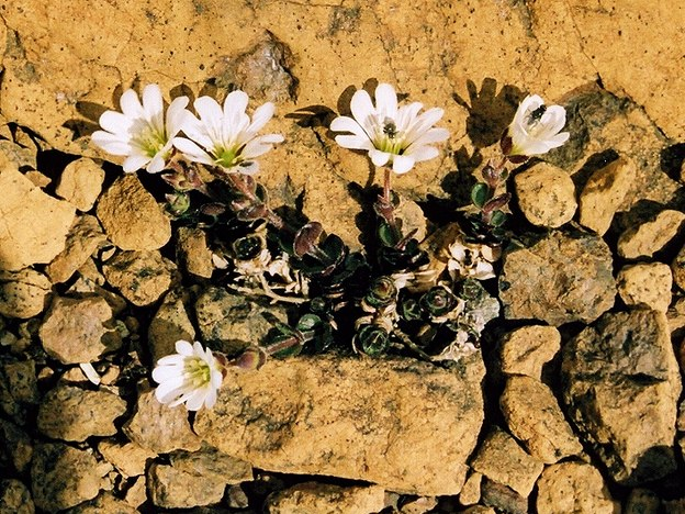 Shetland Mouse-Ear (Cerastium nigrescens) Shetland Mouse-Ear, also called Edmonston's Chickweed after its discoverer, grows nowhere in the world except on the Unst ophiolite.